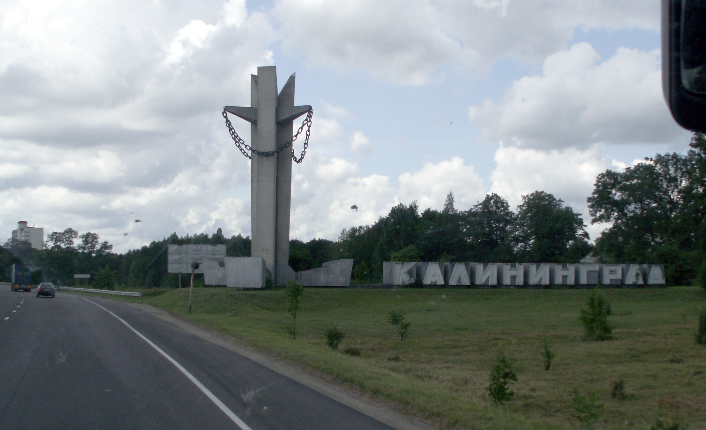 Kaliningrad